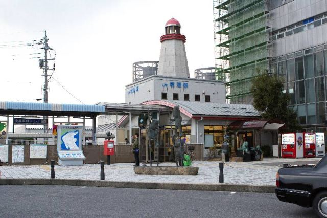 Sakaiminato Station, December 2005. Posted under the permission from the photographer